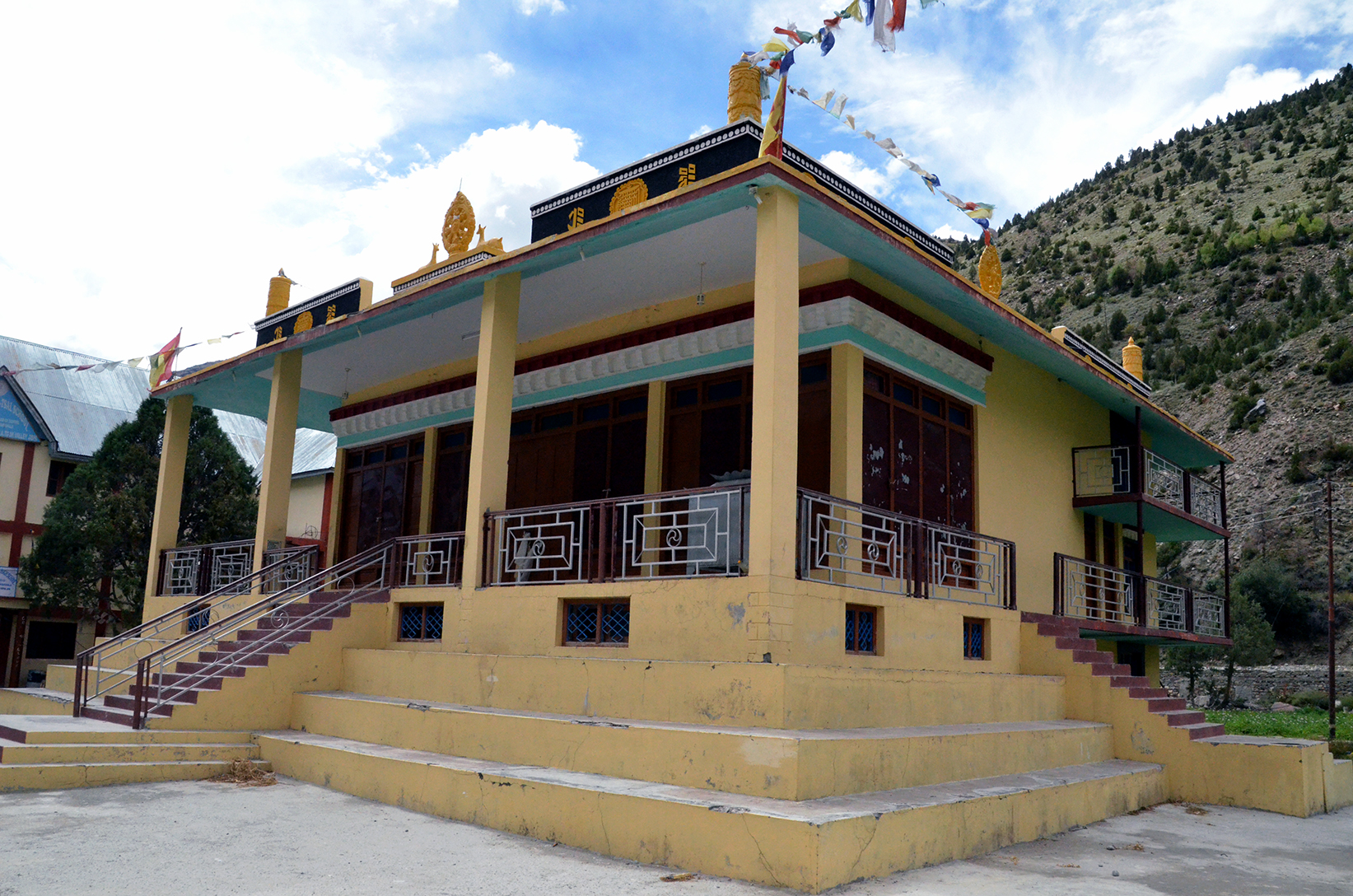 It also has the Yang-Chen Ghatsal High School. It is located on the Manali-Leh highway